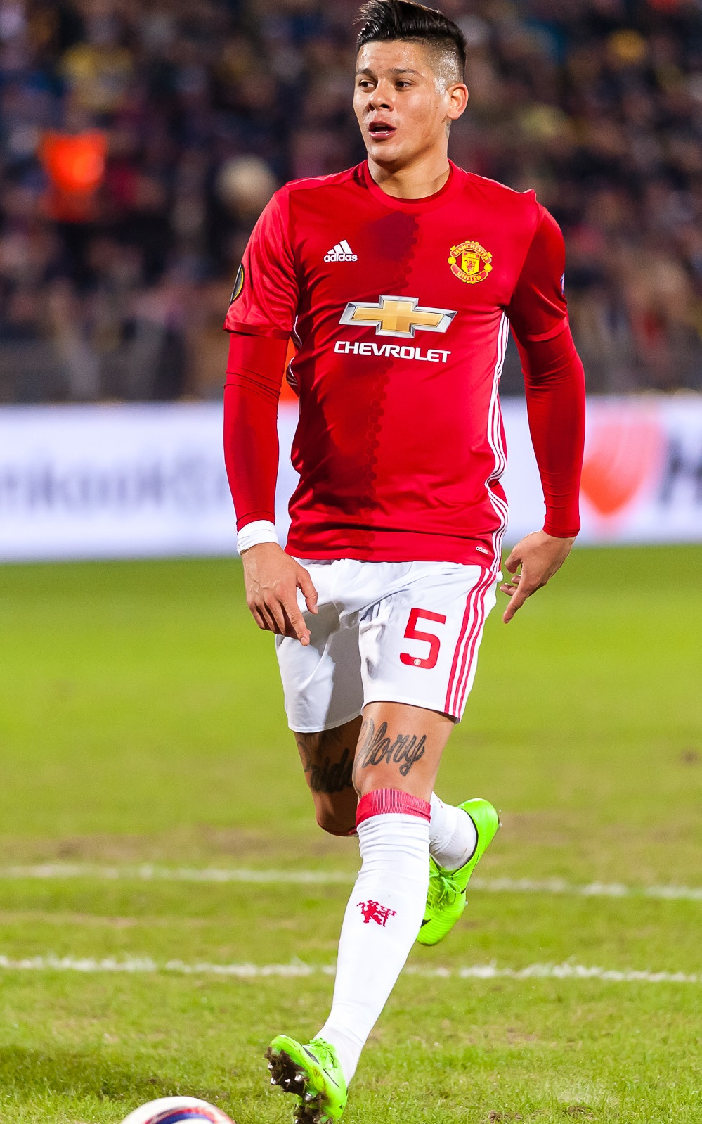 Manchester United footballer Marcos Rojo in 2017 UEFA Europa league match in Rostov, Russia.